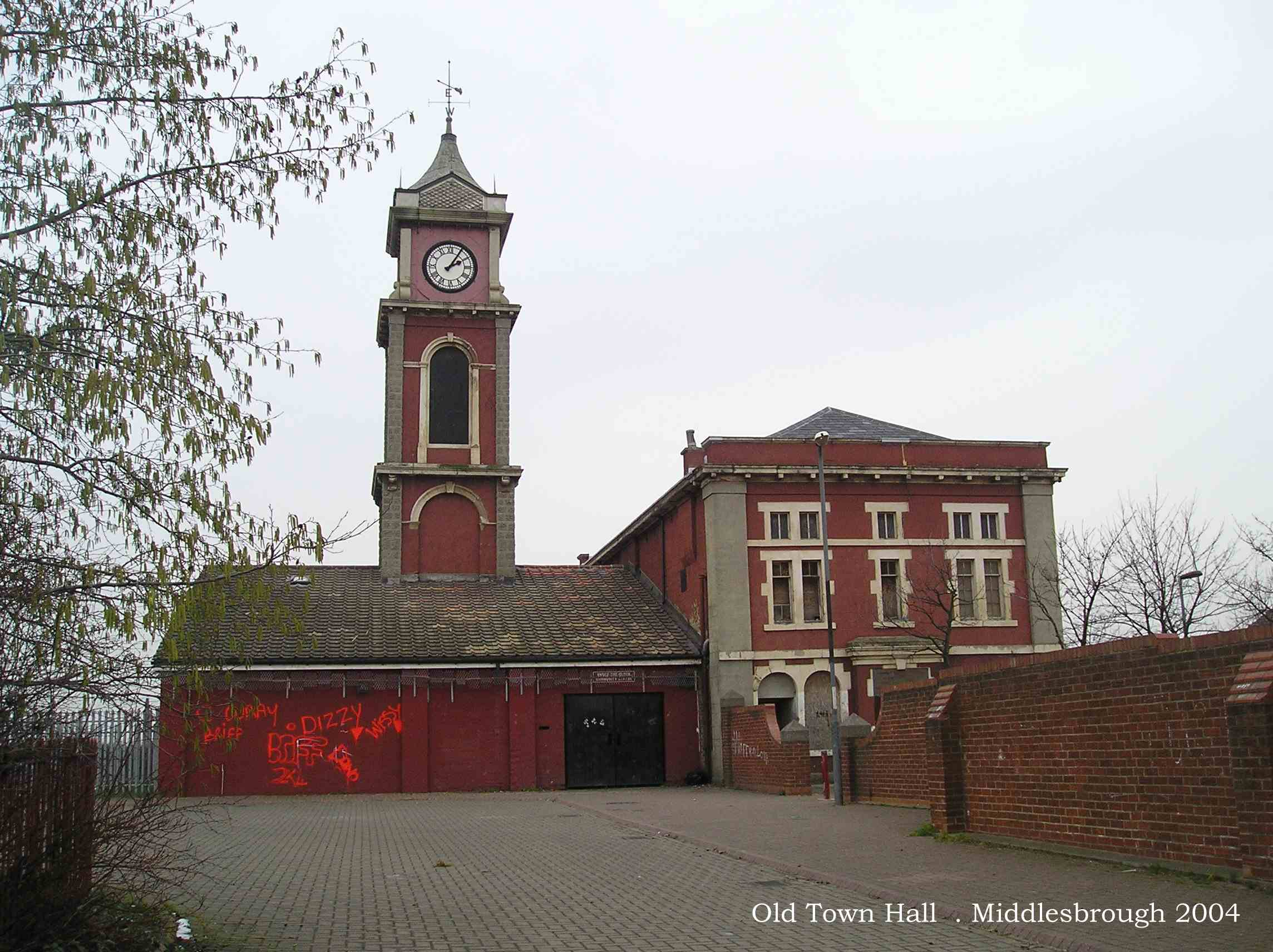 A picture of the old town hall in Middlesbrough, Yorkshire NR "over the border" taken by MikG